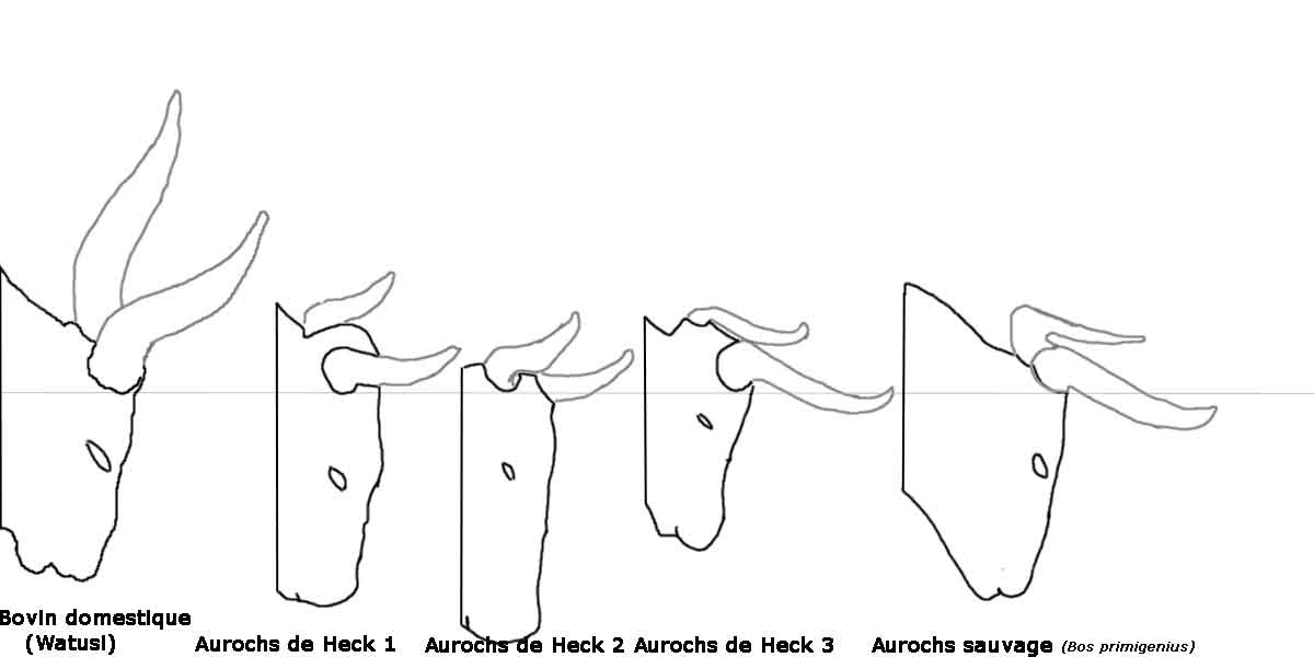 Horns of watusi (domesticated cattle), of 3 heck cattle, and of a real aurochs (Bos primigenius).